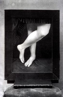 The legs of Virginia Oldoini, Countess di Castiglione (1837−1899), by Pierre-Louis Pierson, c1861/67